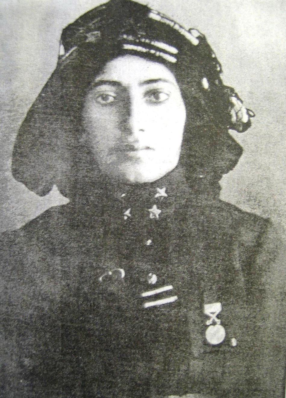 Fatma Seher Erden (1888-1955) also known as 'Kara Fatma' was a Turkish war hero. She married an officer called Derviş Bey and fought with him in the Balkan War. She also organized a group of 9-10 women and fought at Caucasusu front in WWI. Her husband was killed by Armenians. This led to her joining the National Forces of Mustafa Kemal Pasha and fought againts Armenians. She established a band and fought againts the invading Greeks at Bursa and Iznik. Her son and her doughter ware also members of her band. The band had 35 fighters. After the wars she was promoted to the rank of 2nd Lt.